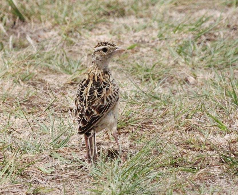 Rudd's lark at Wakkerstroom, Mpumalanga, South Africa